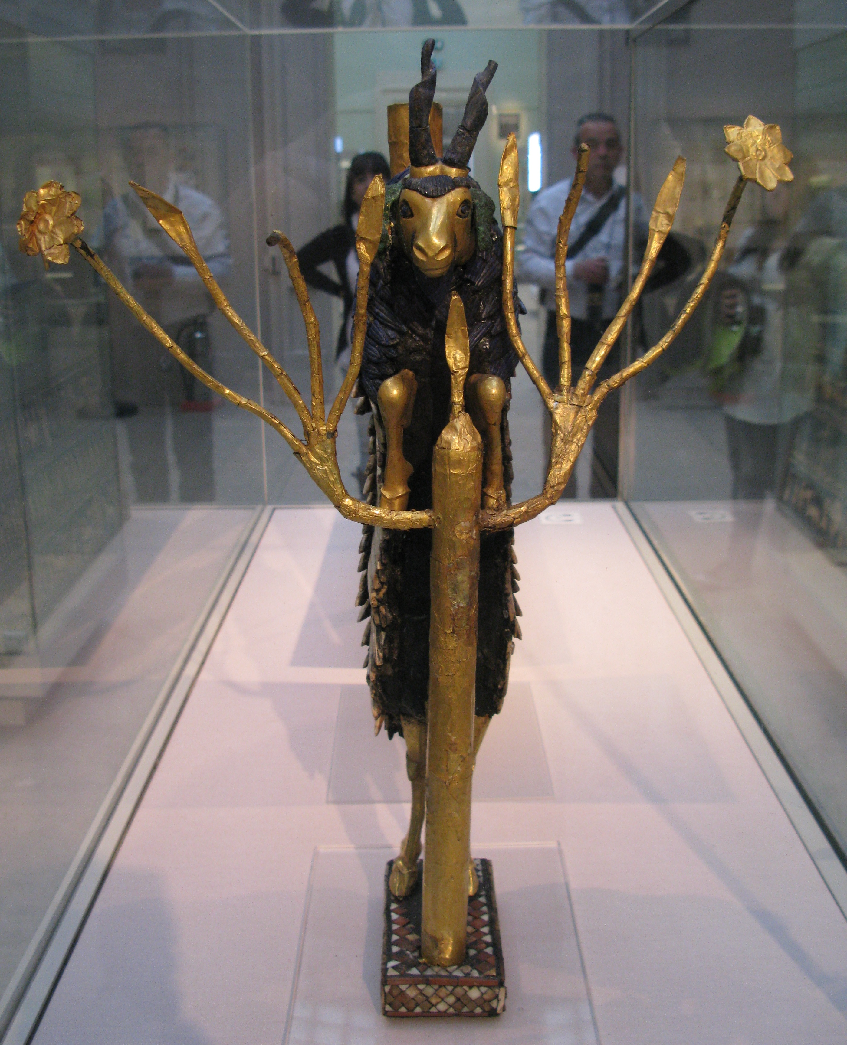 Photo of the "Ram in a Thicket" figure at the British Museum.